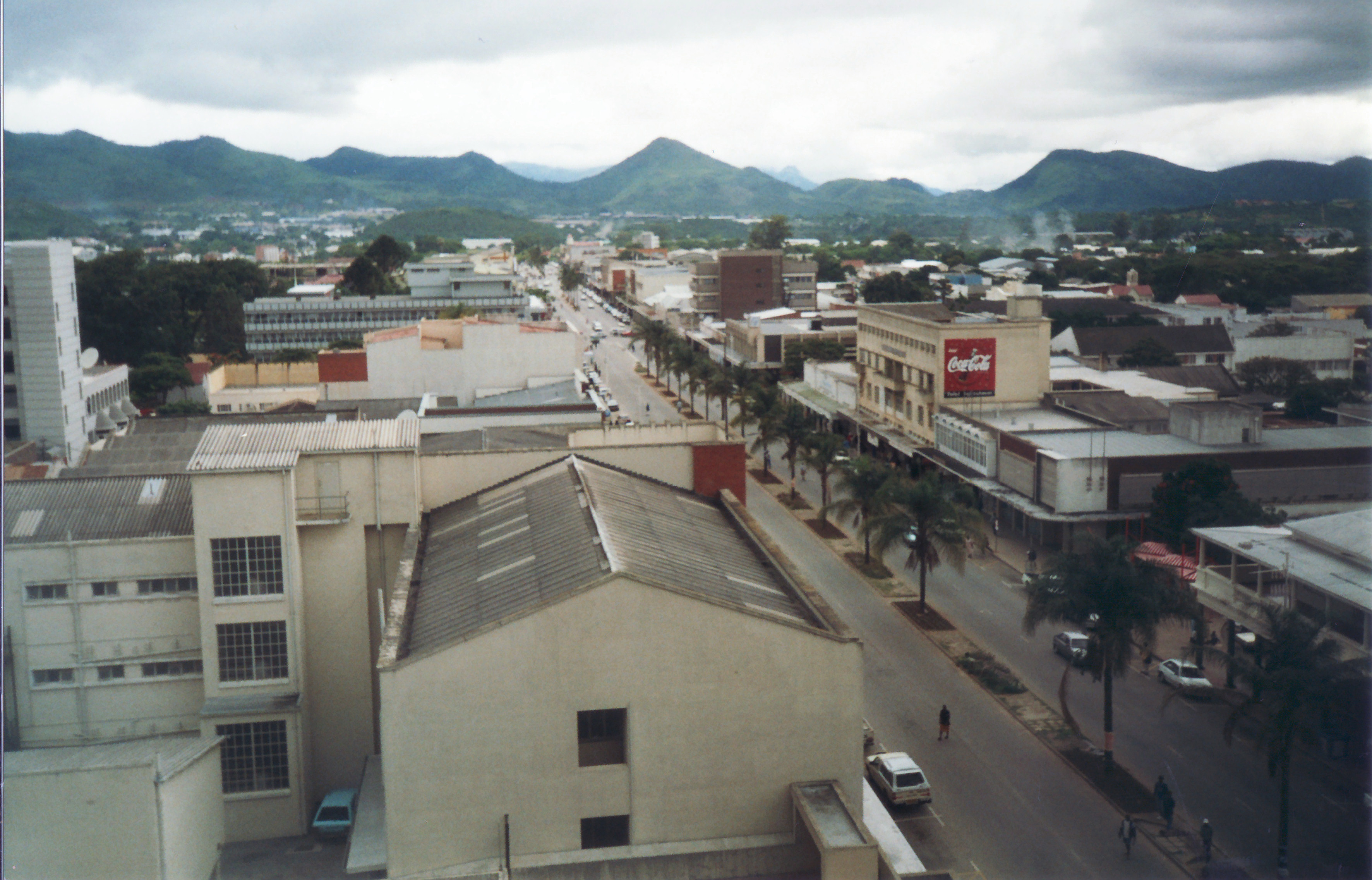 Mutare, aerial view of main street looking south. Taken late 2001.